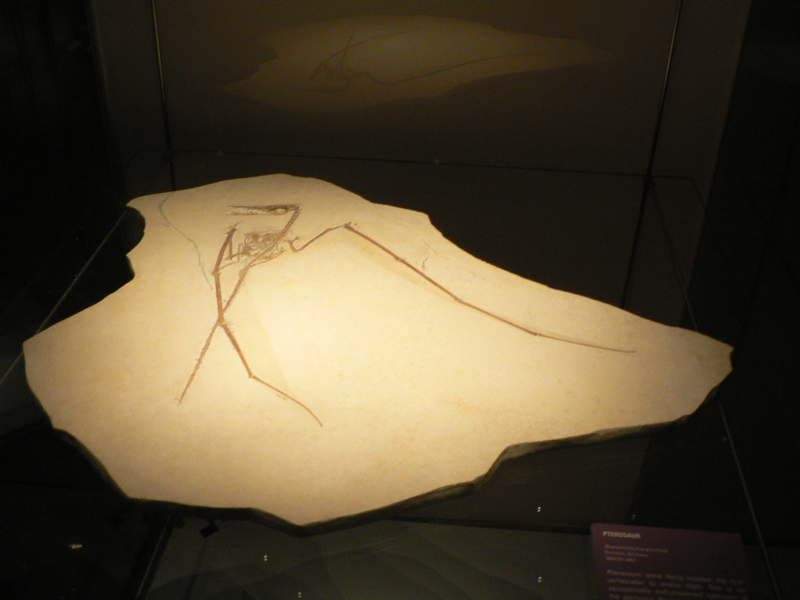 Rhamphorhynchus fossil. Taken at the Royal Tyrrell Museum of Palaeontology.